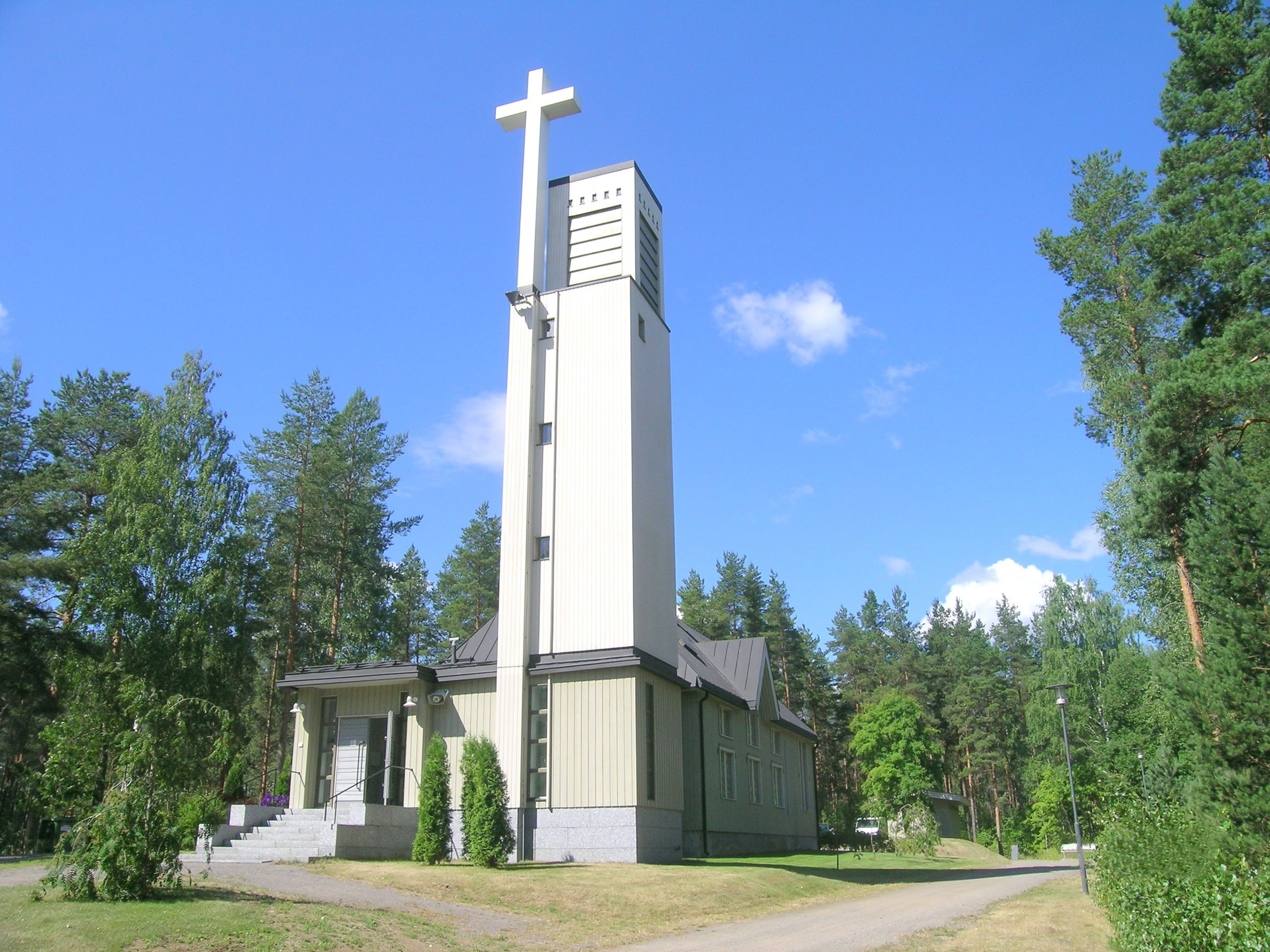 Punkaharju Church in Finland